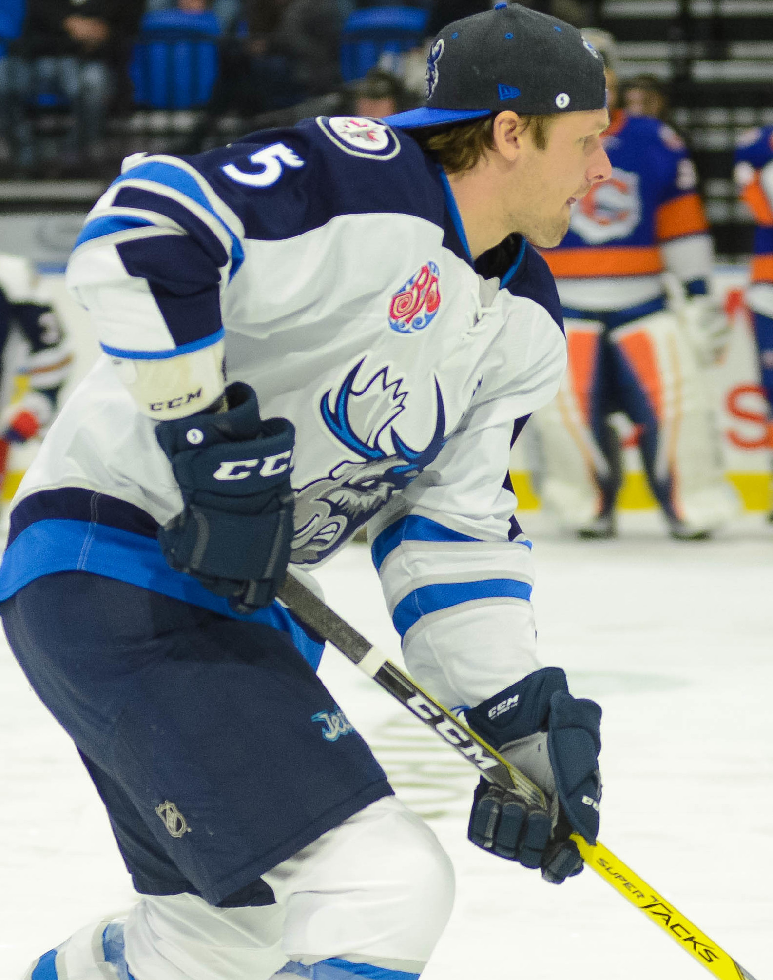 (Lindsay Mogle/ AHL)